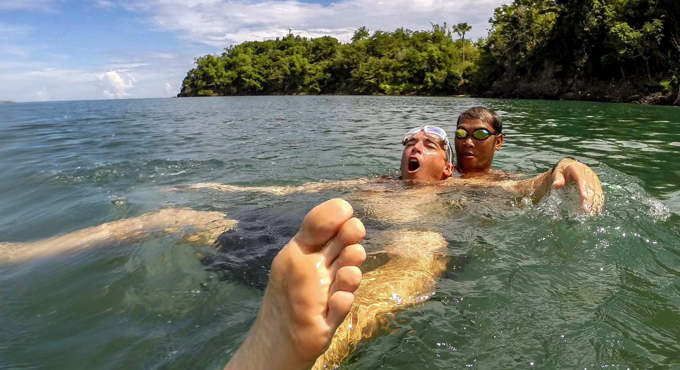 Rescue tow from behind (undefined technique), used in simulated drowning during water safety exercises executed by U.S. Coast Guard in Philippines.